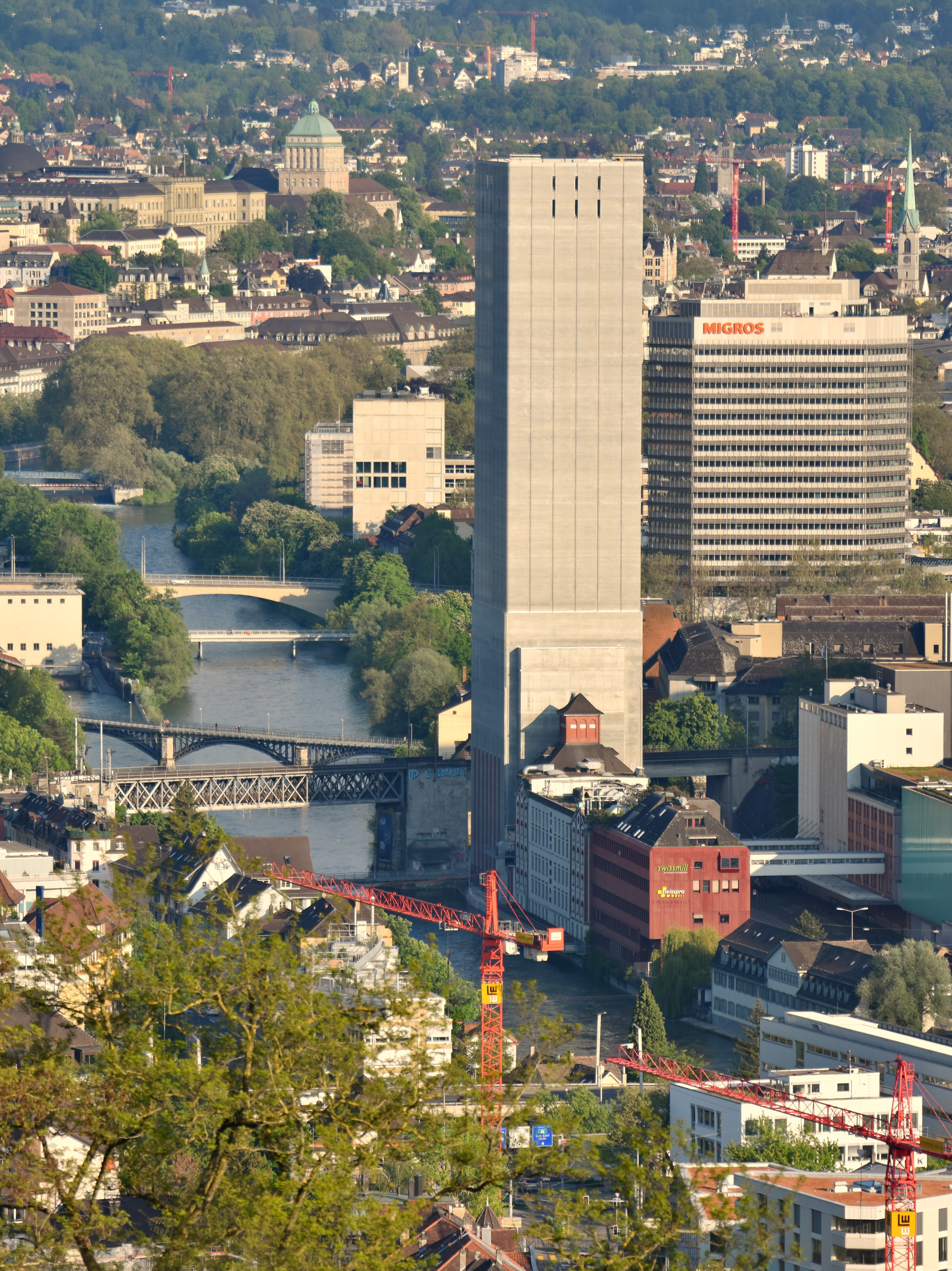 Migros-Hochhaus and Swissmill Tower in Zürich-City respectively in the Limmat Valley, as seen from the Käferberg.